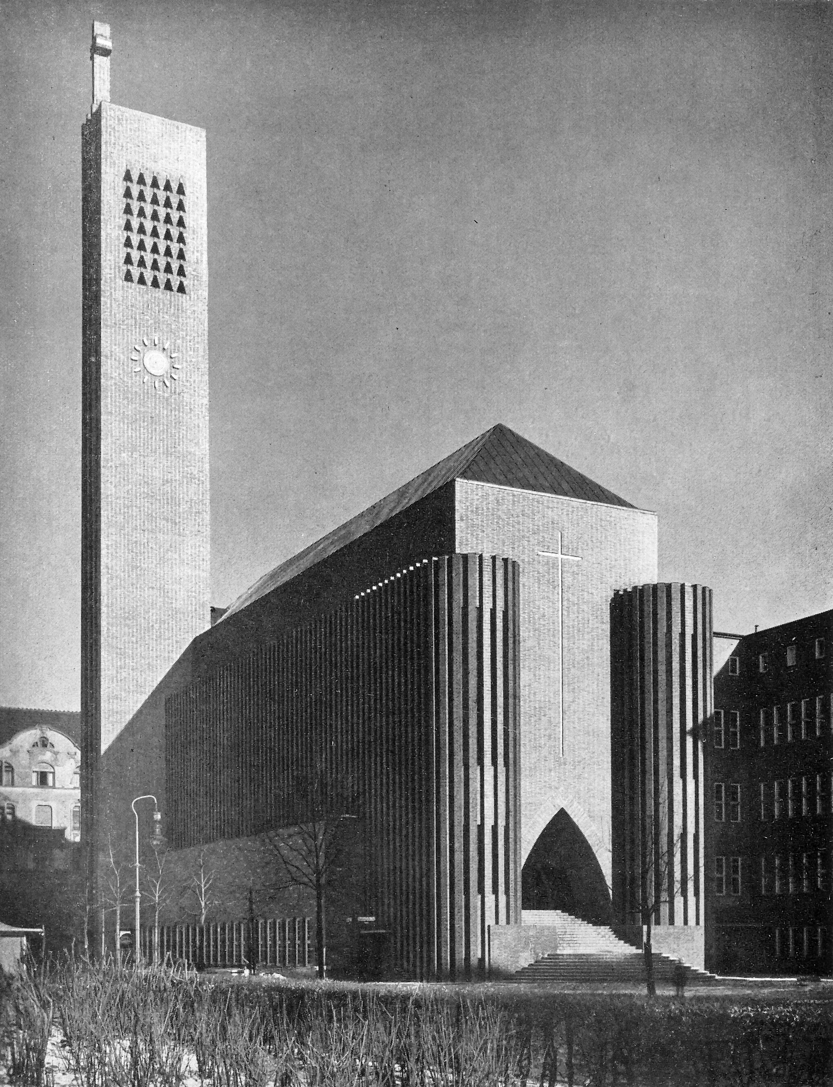 Church at Hohenzollernplatz square located in Wilmersdorf quarter of Berlin, Germany.The contemporary image was taken by Hamburg-based photographer Carl Dransfeld (1880-1941), between 1934 and 1938. Architect was Ossip Klarwein under supervision of Fritz Hoeger.